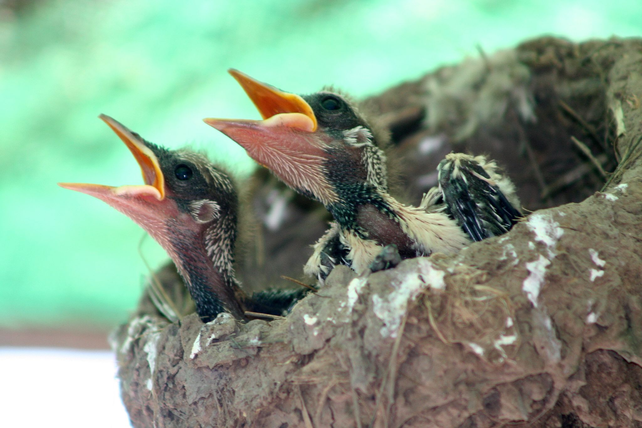 Australian Magpie-Lark Grallina cyanoleuca chicks